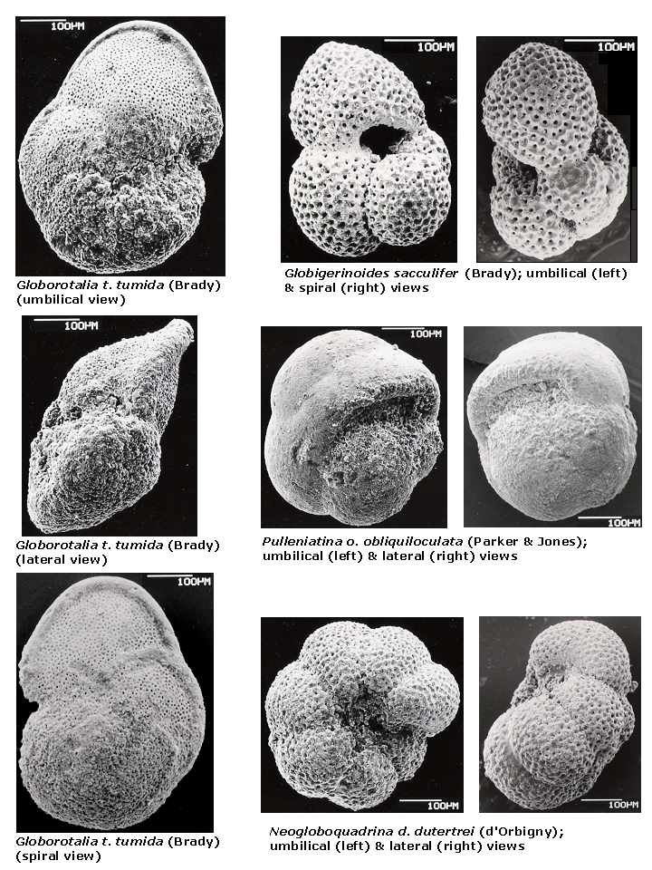 Planktic Foraminifera - some examples from Late Pliocene of Baja California - Mexico.